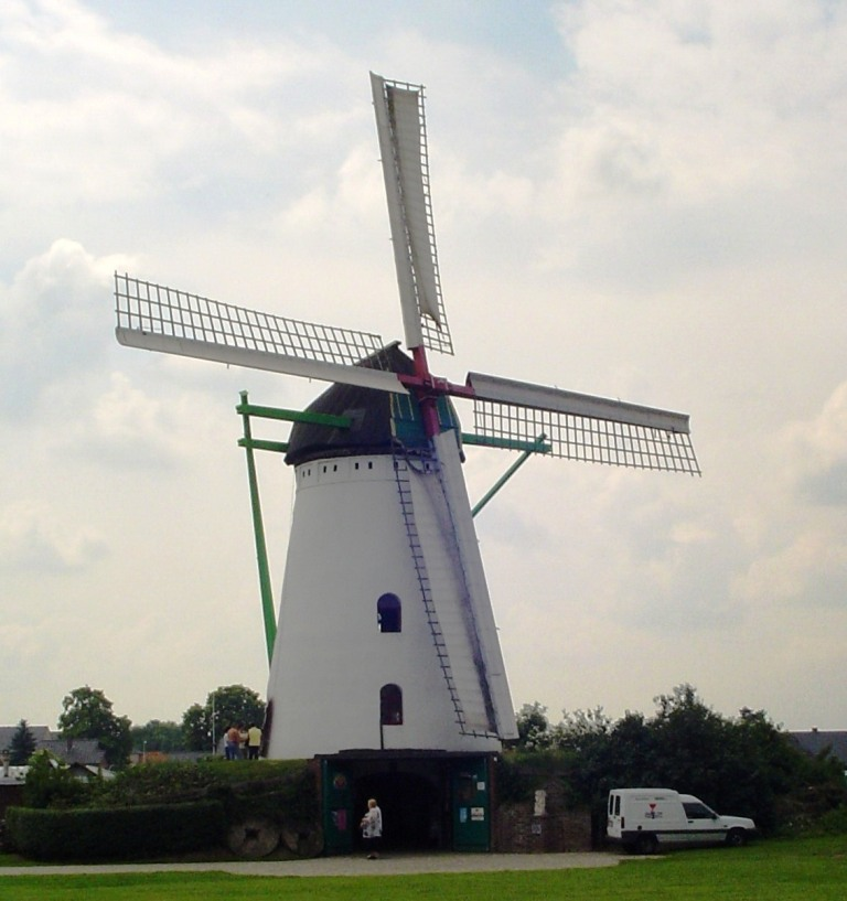 Keijersmolen windmill in Molenbeersel